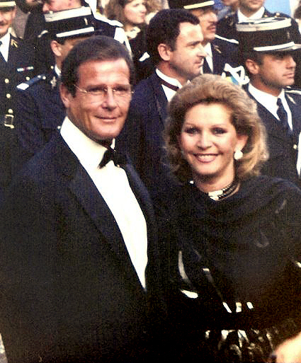 Roger Moore at the Cannes films festival